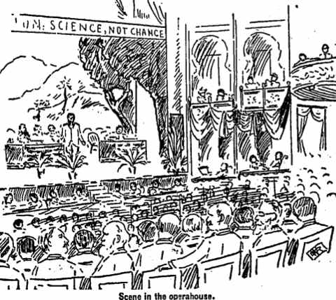 The drawing shows the interior of the Los Angeles, California, Grand Opera House during a meeting of the National Irrigation Congress in 1893.